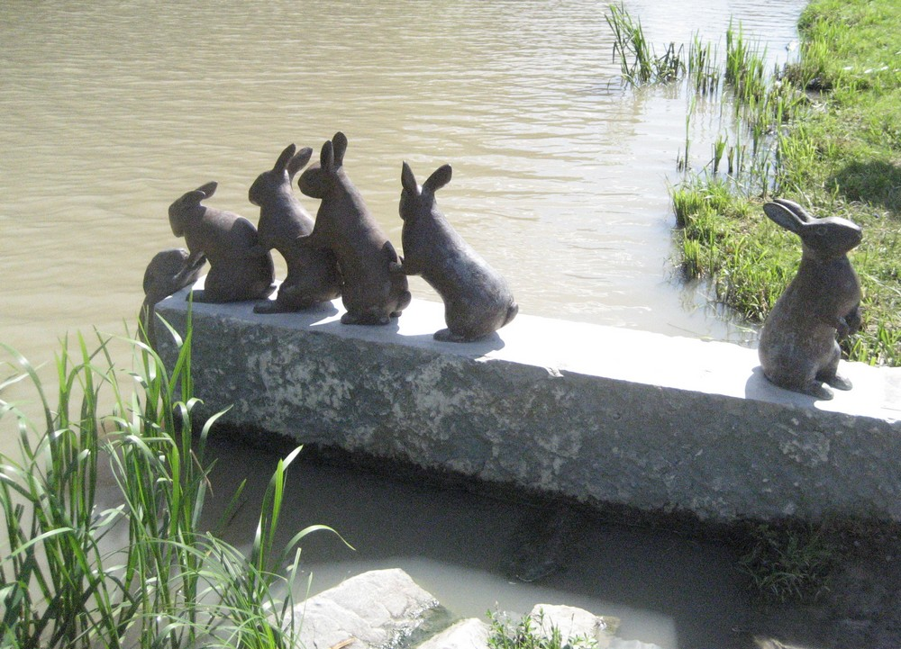 Rabbit crossing av Eva Fornåå, 2005, väster om gästhamnen i Söderköping Söderköping, Sweden., Söderköping.